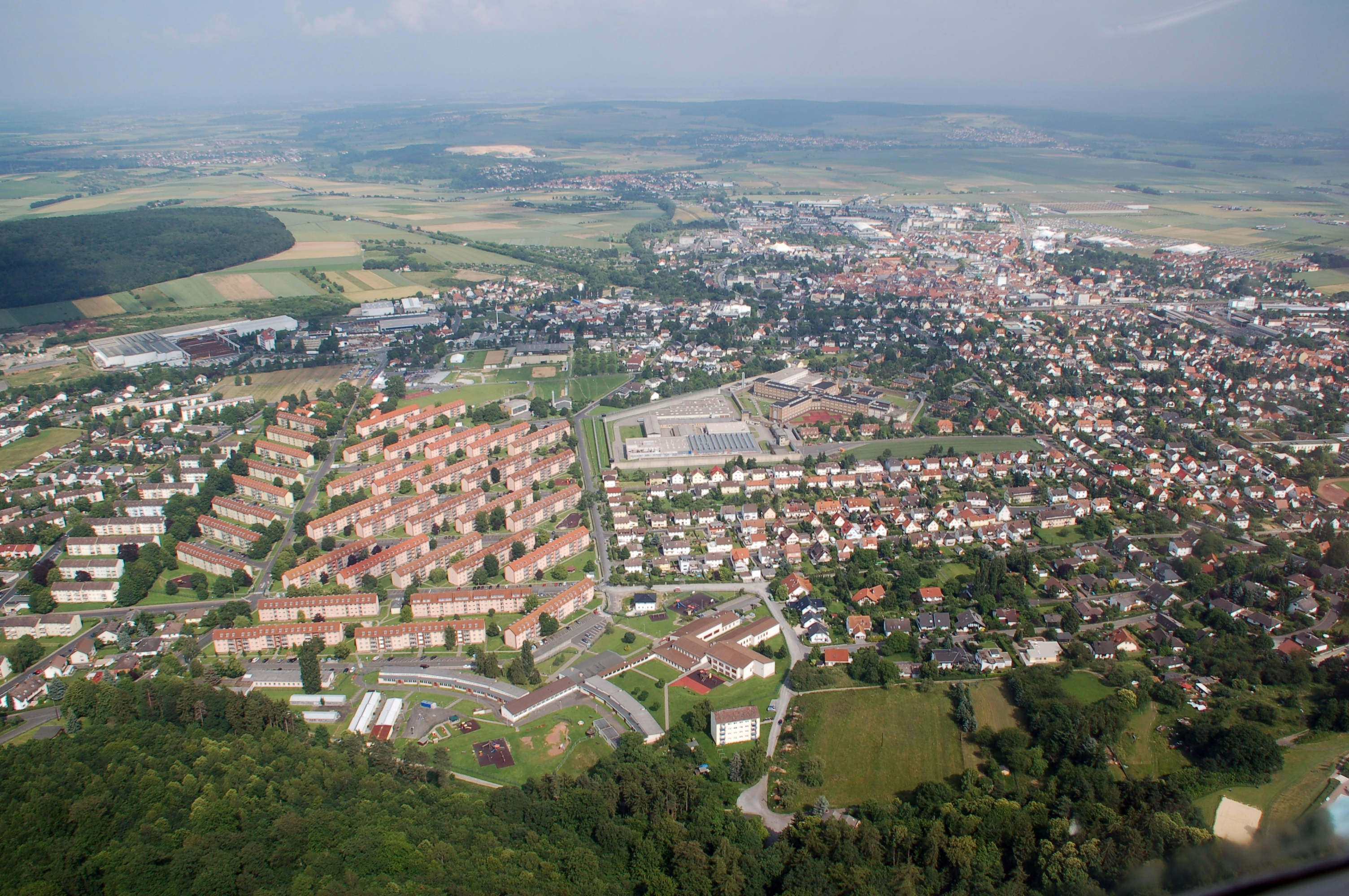 Aerial photograph of Butzbach, Hessen, Germany